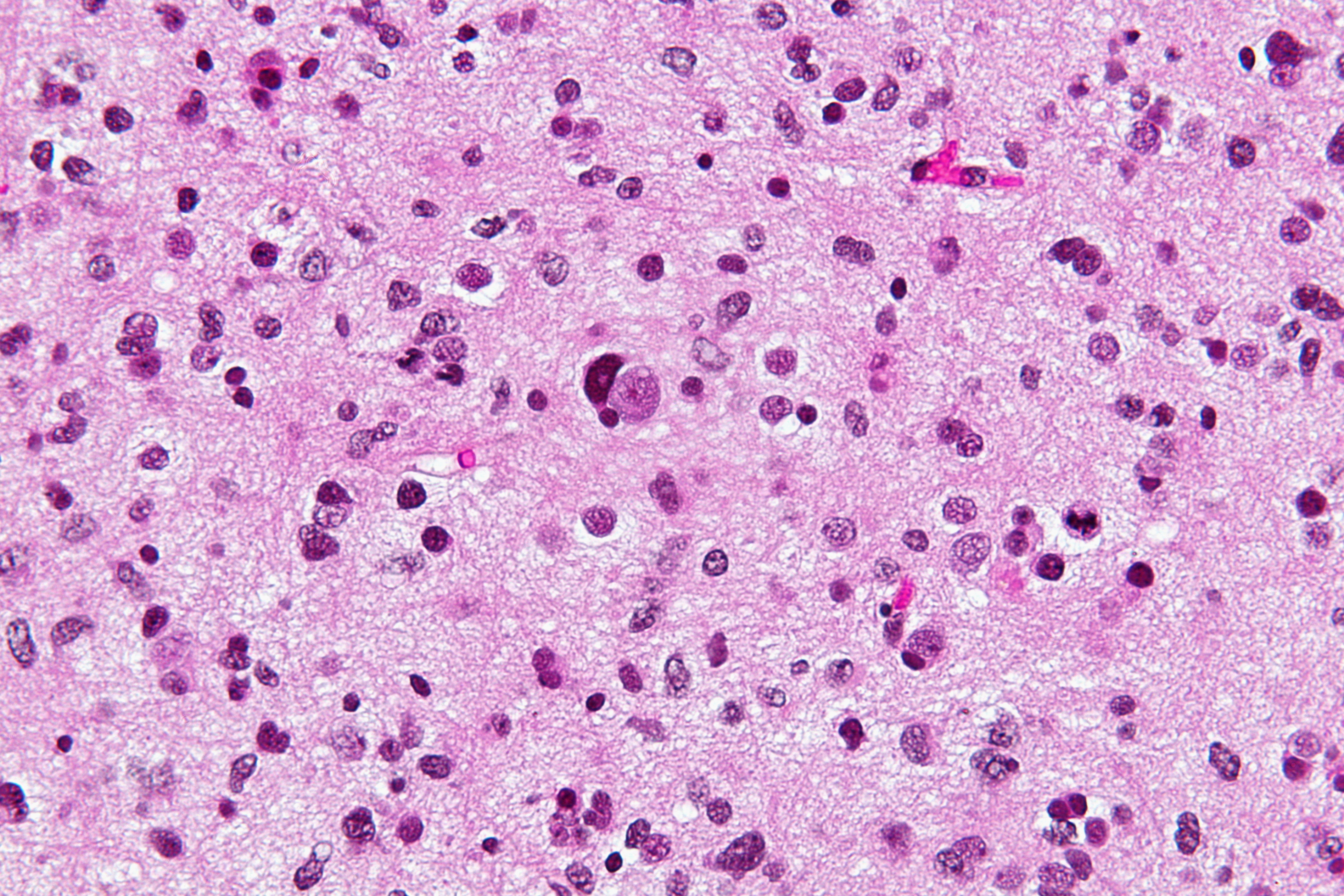 Very high magnification micrograph of an anaplastic astrocytoma. H&E stain. The typical features are present: Marked nuclear atypia. Elongated nuclei (consistent with derivation from an astrocyte ). Mitoses. Fine fibrillary processes (consistent with a glial cell population). Cytoplasmic staining of atypical cells with GFAP. p53 immunohistochemical stain positivity. High proliferative rate based on Ki-67 staining. Related images Low mag. Intermed. mag. High mag. Very high mag. (cropped) GFAP. Very high mag. Ki-67. High mag. p53. Very high mag.